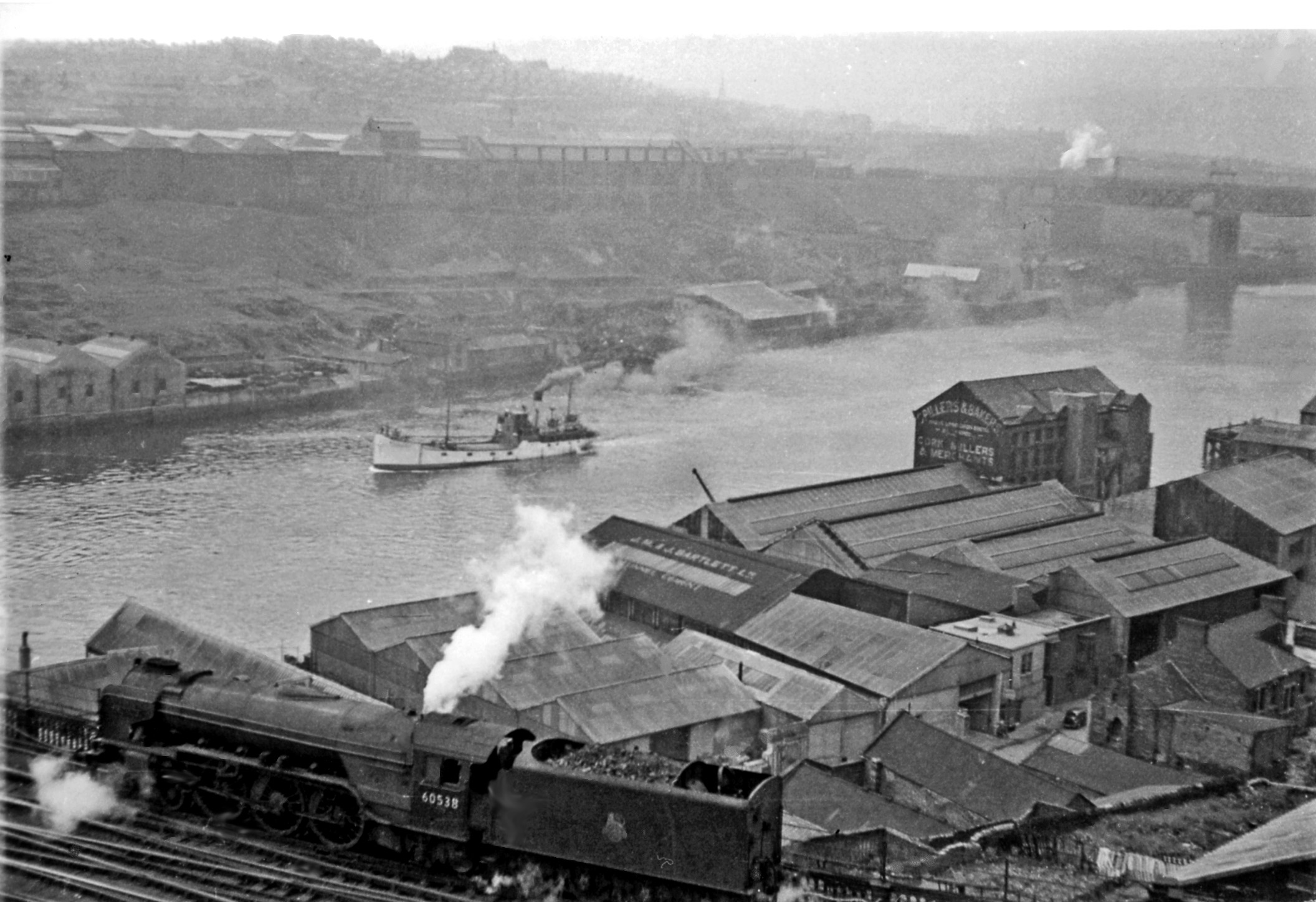 Panorama from Newcastle castle keep across the River Tyne to Gateshead. View southward, with the High Level Bridge off to the left and King Edward Bridge in the right distance. In the foreground, Peppercorn Class A2 Pacific No. 60538 'Velocity' has come off Gateshead Depot, which with Gateshead Works stretches along the opposite bank of the River Tyne. (This scene will now be vastly different and less grim).